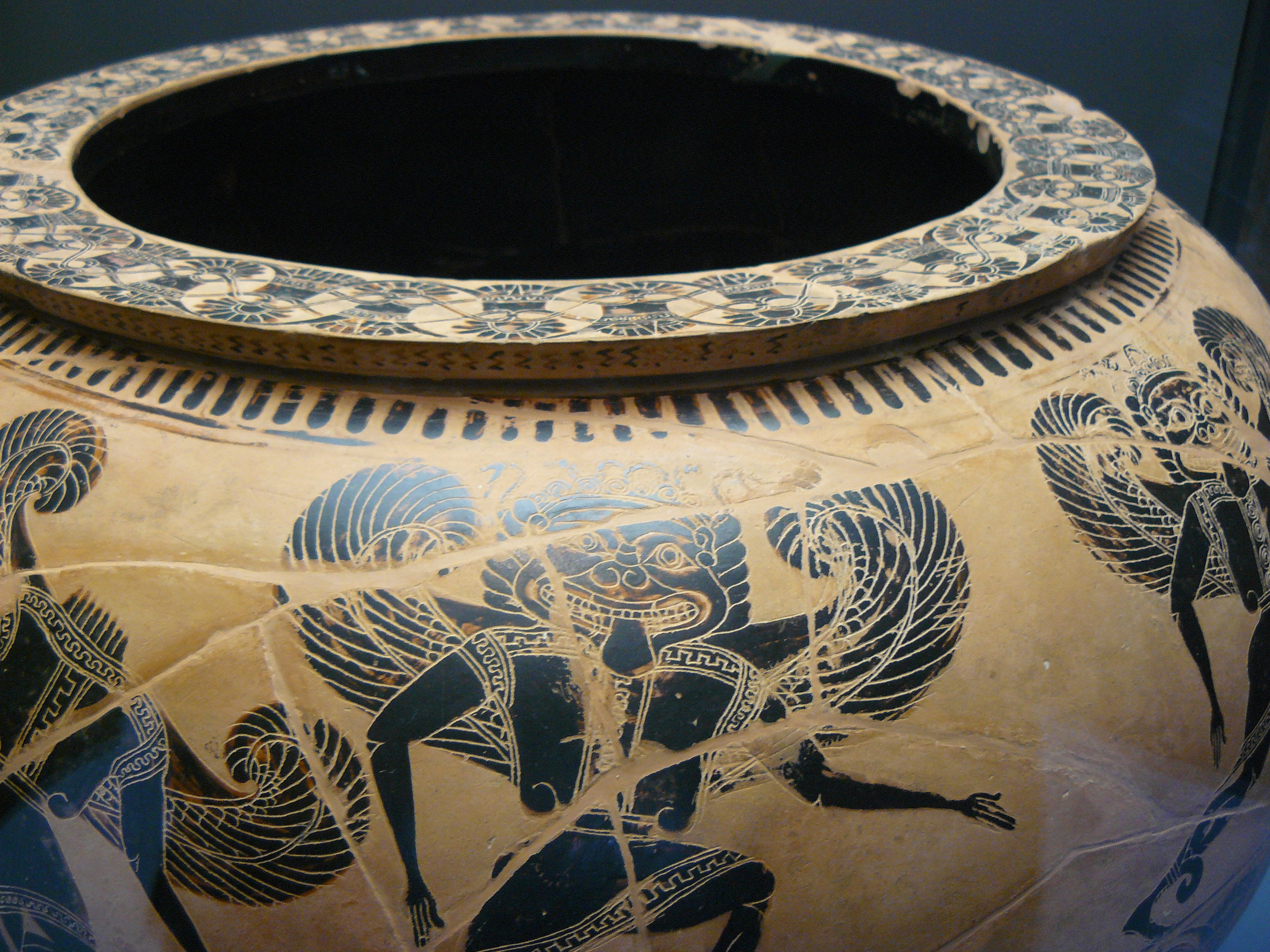 So-called “Gorgon Painter's dinos”, black-figure technique with crimson appreciations (?). From Etruria, ca. 580 BC. Detail of the shoulder: winged Gorgo.